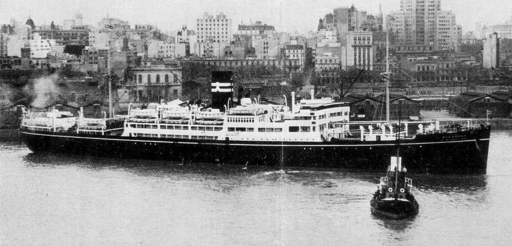 O.S.K. Line "Rio de Janeiro Maru" (1930) in Buenos Aires